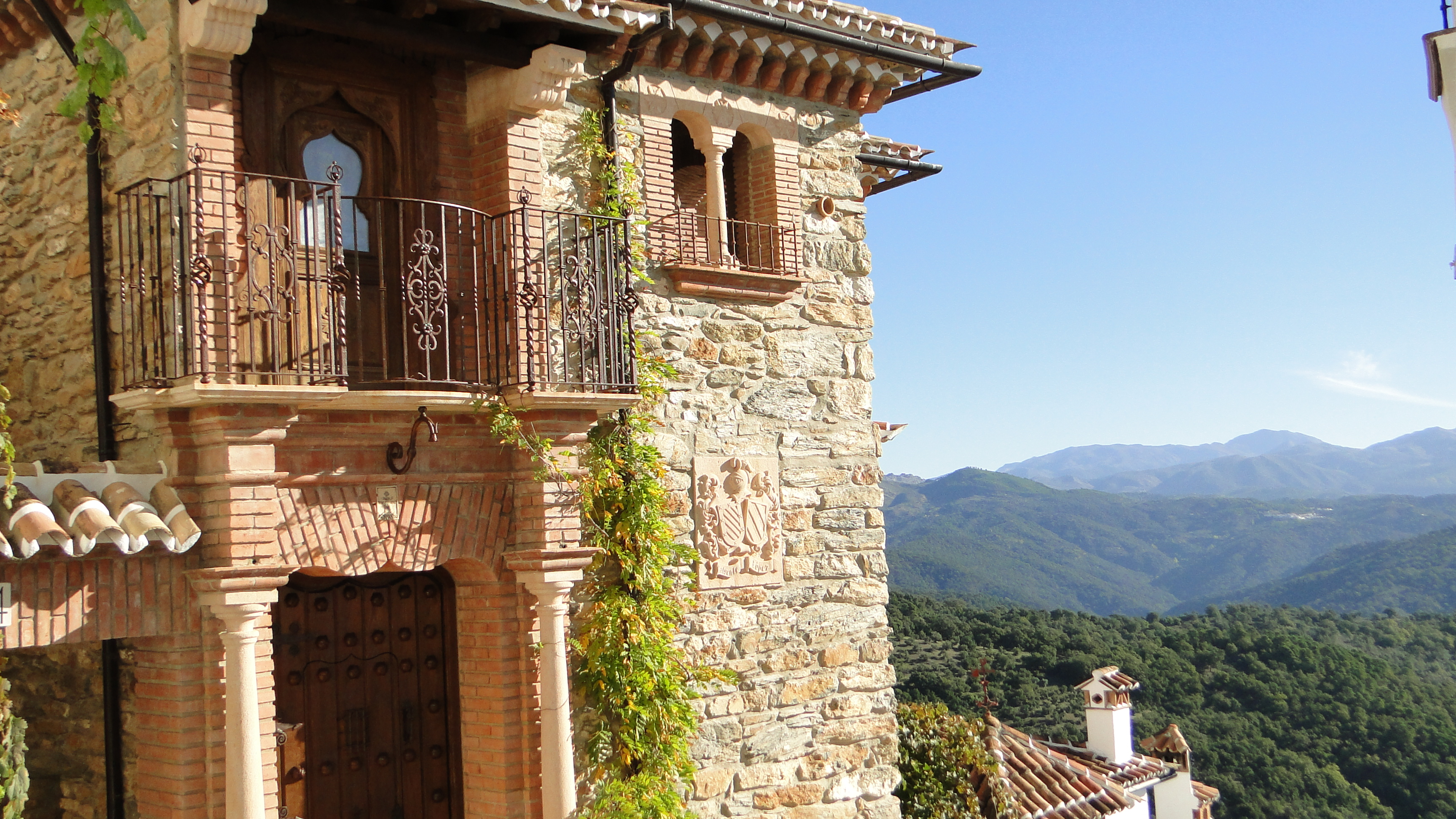 Benalauría (Málaga) - Valley of the Genal